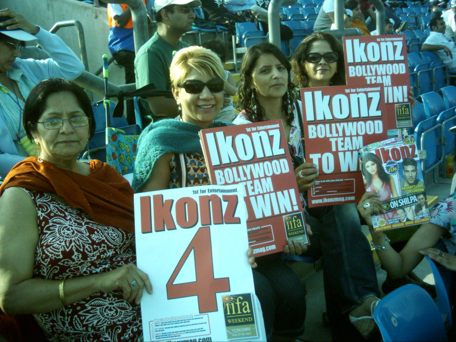 Bollywood fans hoist supportive banners at the IIFA foundation celebrity cricket match in Headingley Carnegie Stadium, as part of the IIFA Weekend 2007 in Yorkshire.